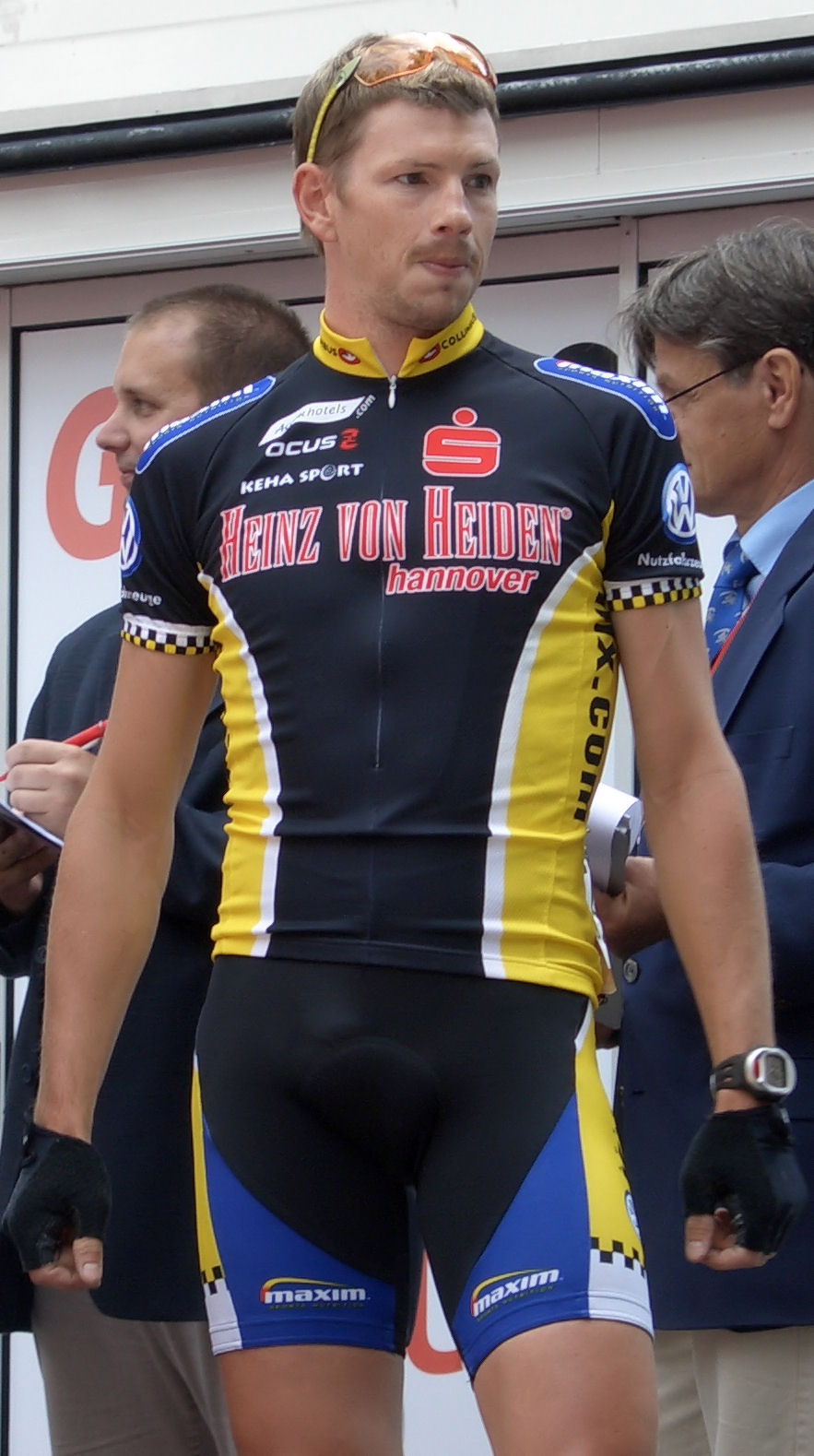 Malte Urban